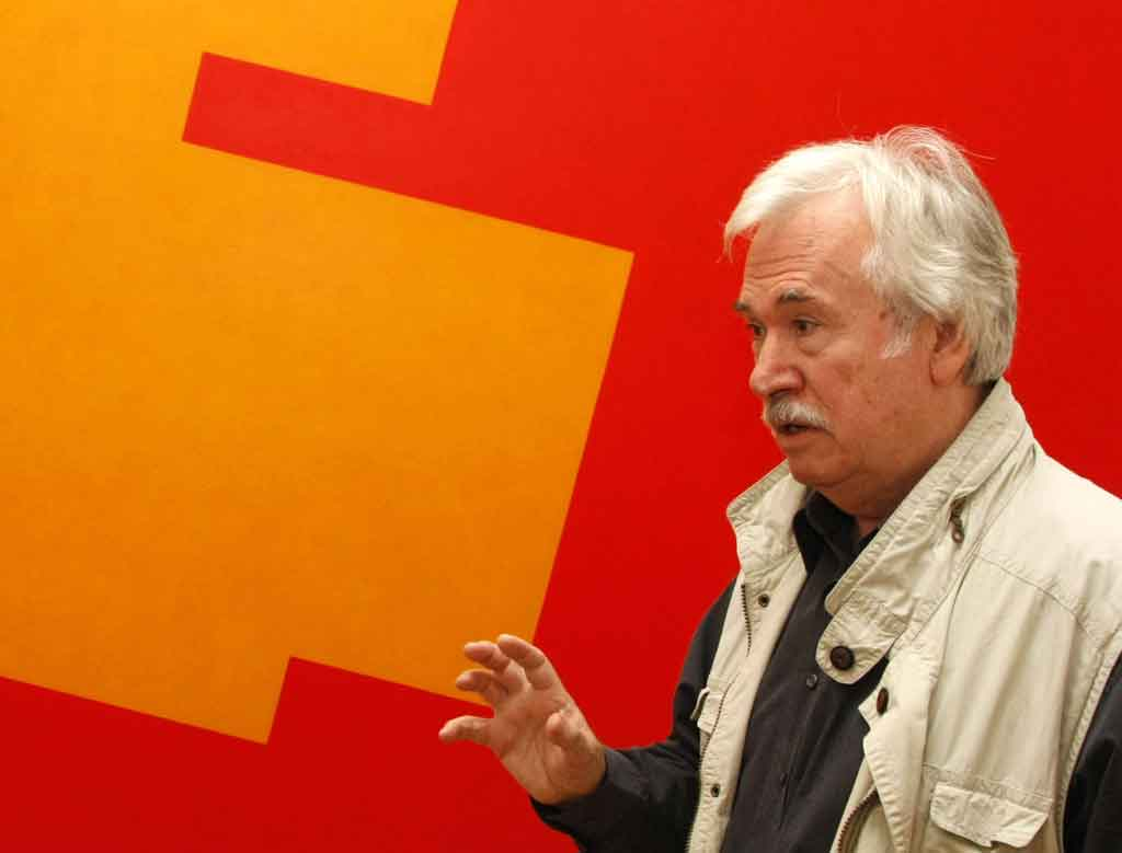 Diet Sayler, Museo de Arte Bayreuth, 2009